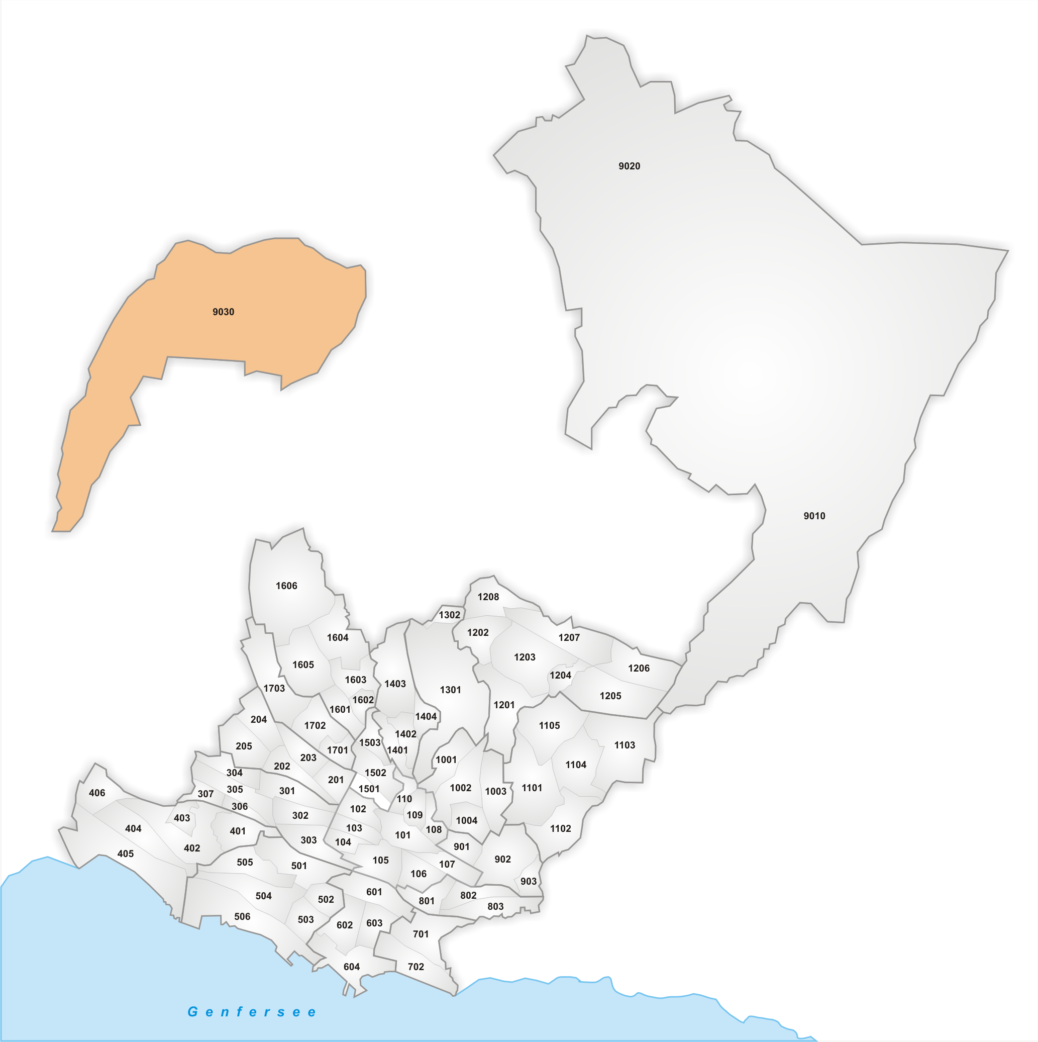 Lausanne Quarter 9030